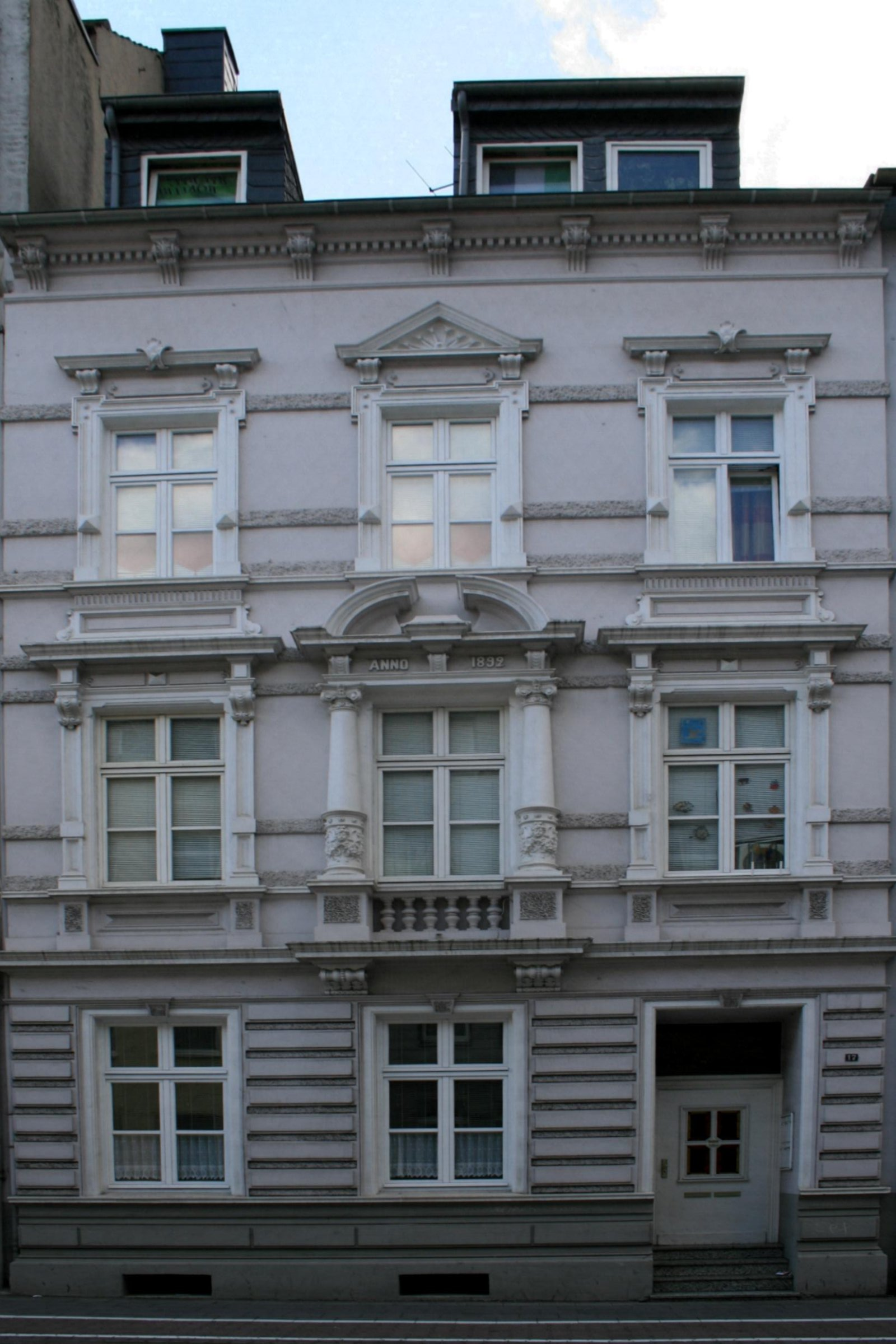 Cultural heritage monument No. B 059 in Mönchengladbach